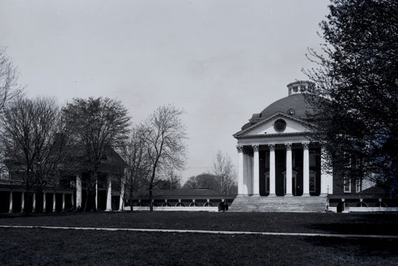 University of Virginia: The Rotunda and Pavilion I seen from the Lawn in or before 1895. "Title: Rotunda from Lawn (...) Comments: Rotunda and Pavilion I, from Lawn. Note Rotunda cupola and gymnasium roof. 3 b&w photographs. Image Filename: prints00077 (University of Virginia Visual History Collection)